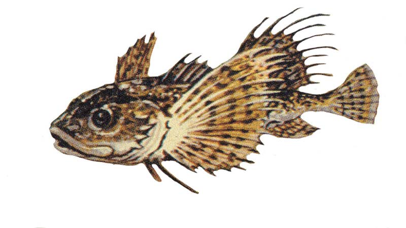 Deepwater sculpin, Myoxocephalus quadricornis thompsonii (or Myoxocephalus thompsonii, Triglopsis thompsonii), of continental North American lakes. Great Lakes Environmental Research Laboratory.